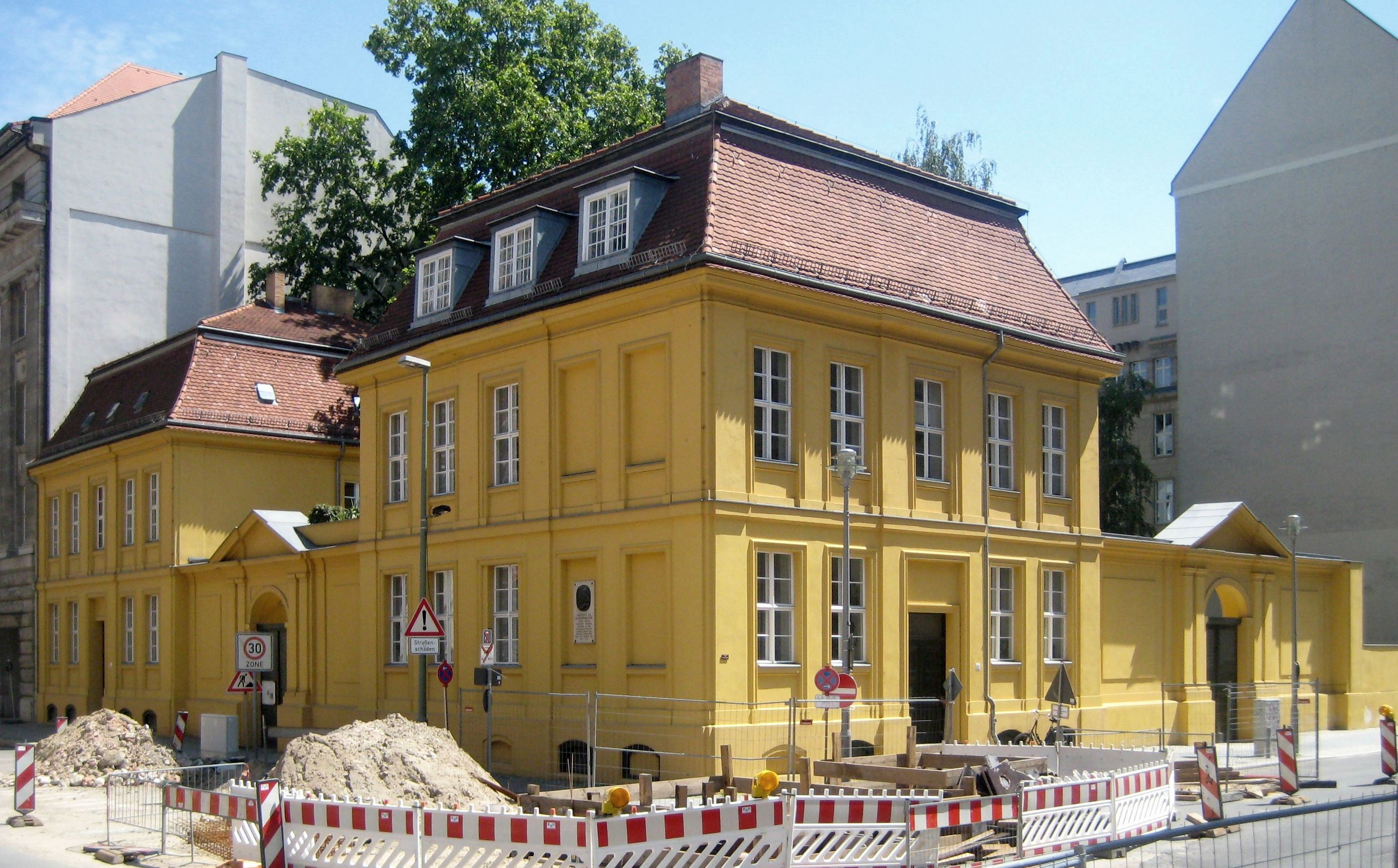 The two remaining of formerly three rectory buildings of the Protestant Dreifaltigkeitskirche (Trinity Church) in Berlin-Mitte, destroyed in WWII. Located at the corner of Taubenstraße (on the left) and Glinkastraße, they were erected in 1739 by the master builders of Dreifaltigkeitskirche, Titus Favre and J.K. Stoltze. These are the only remaining 18th century residential buildings in Friedrichstadt, which still have their original height and facade design. They are therefore unique documents of the early development of the Friedrichstadt. The house on the left served as parsonage for the Lutherans, the house on the right accommodated the congregational school. A third house on Glinkastraße (destroyed in WWII) was the parsonage for the Reformed Church (the Calvinists). The buildings are landmarked.